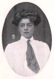 Gwendoline "Gladys" Eastlake-Smith (married Gladys Lamplough; 1883-1941), English Tennis player, Olympic champion in 1908